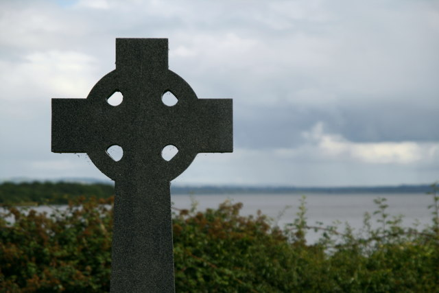 Cranfield Church, Lough Neagh The ruins of Cranfield Church are on the north shore of Lough Neagh at Churchtown Point. It was built in the 13th century and nearby is a holy well, which provides spring water and amber coloured crystals. It was believed that if one of these stones was swallowed it would protect women during childbirth, men from drowning and homes from fire and burglary. In the last century emigrants to America believed that, if they swallowed a pebble, they would sail safely across the Atlantic Ocean.